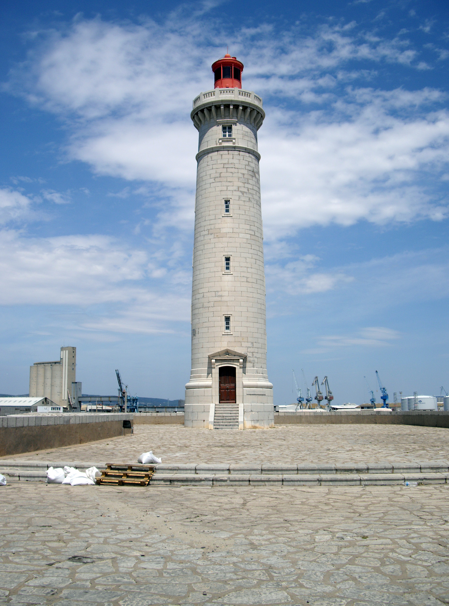 Lighthouse on the mole of Saint-Louis, Sète, France.